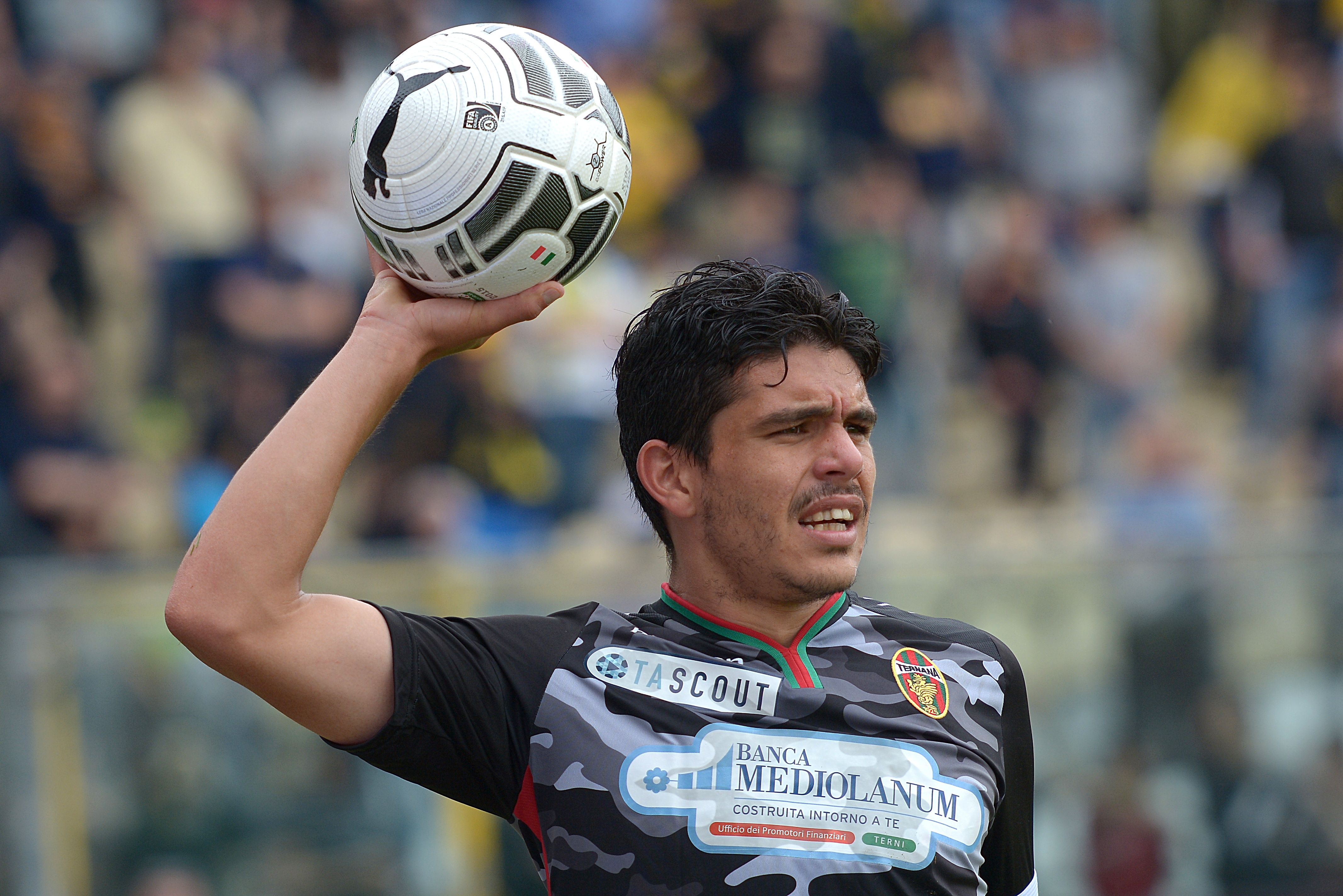 Pasquale Daniele Fazio with the shirt of Ternana Football Club